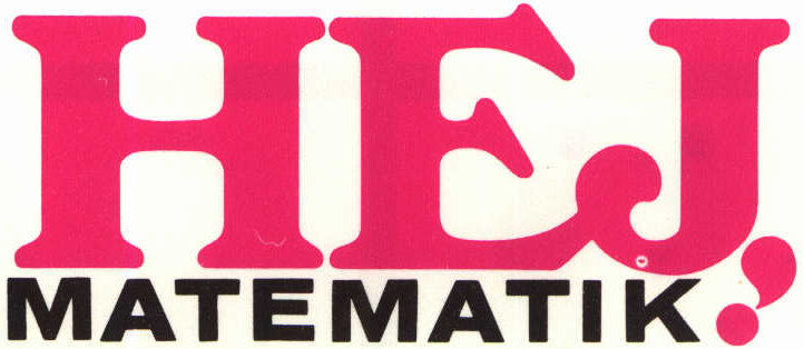 Title of Swedish primary school math textbook "Hej Matematik" (1970)